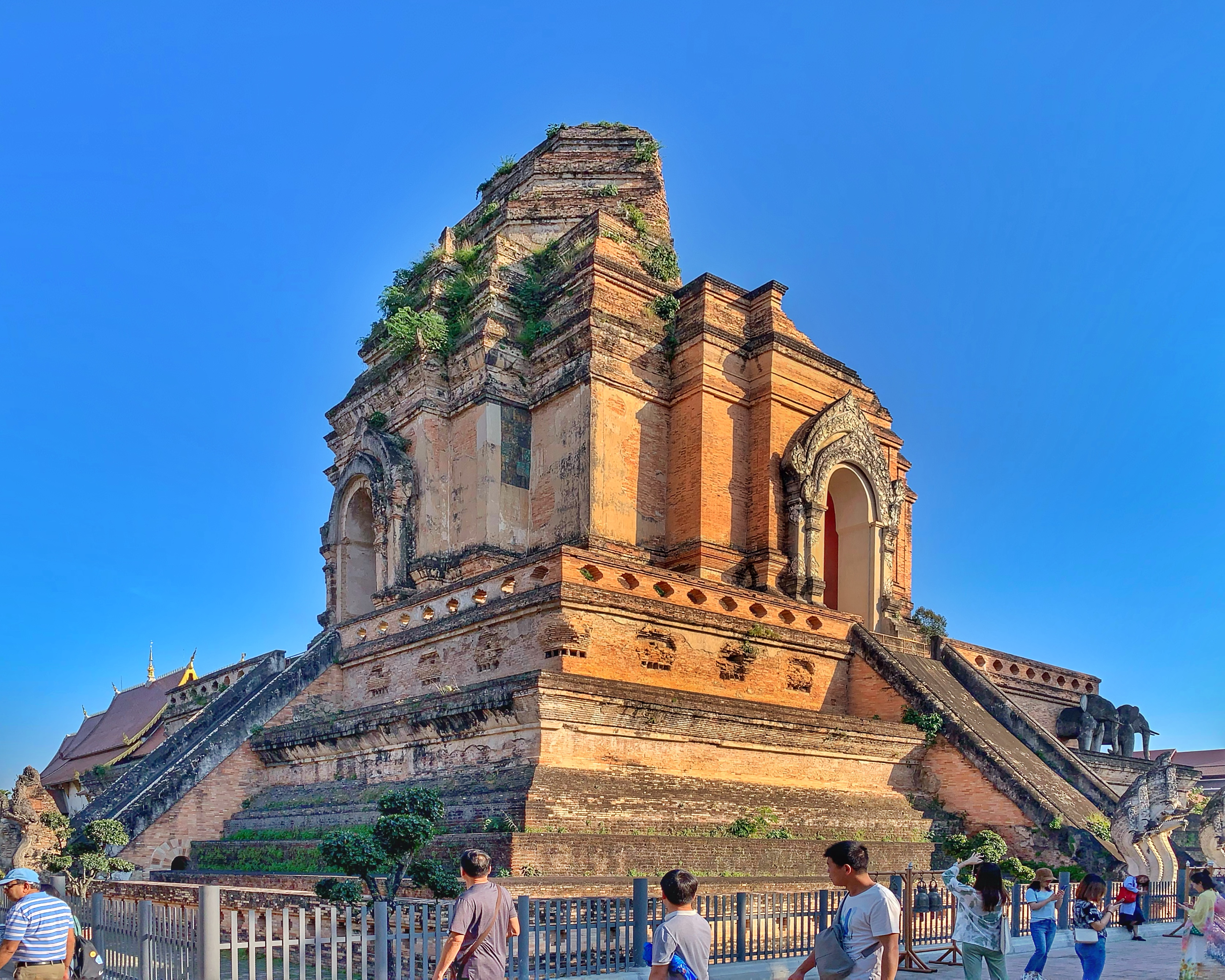 Wat Chedi Luang Stupa